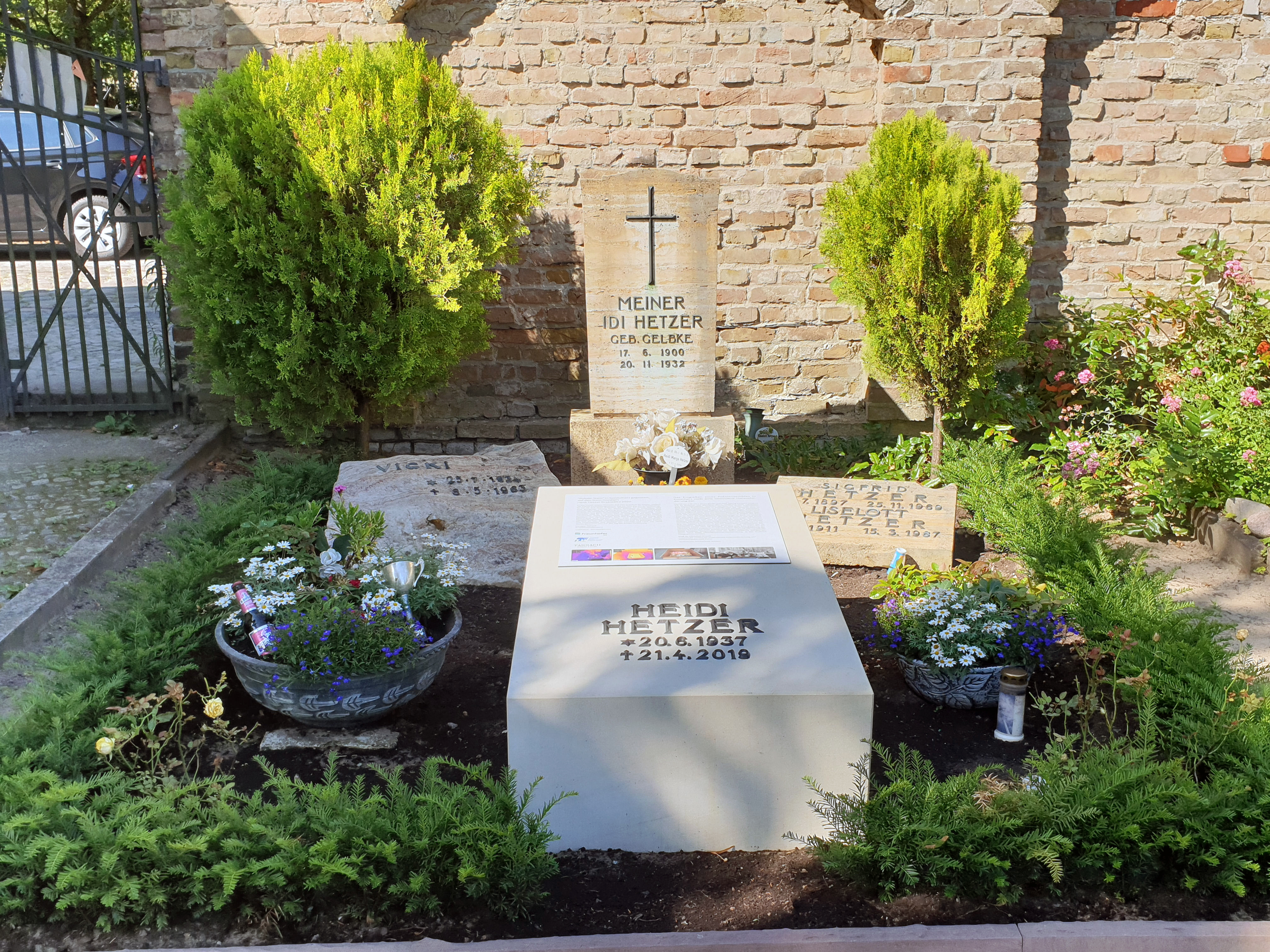 Grave, Heidi Hetzer, Alt-Gatow 32, Berlin-Gatow, Germany